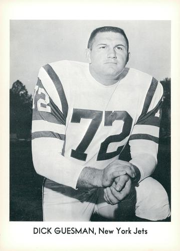 A promotional image of New York Jets player Dick Guesman.